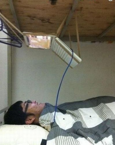 jugaad for using laptop for watching movies